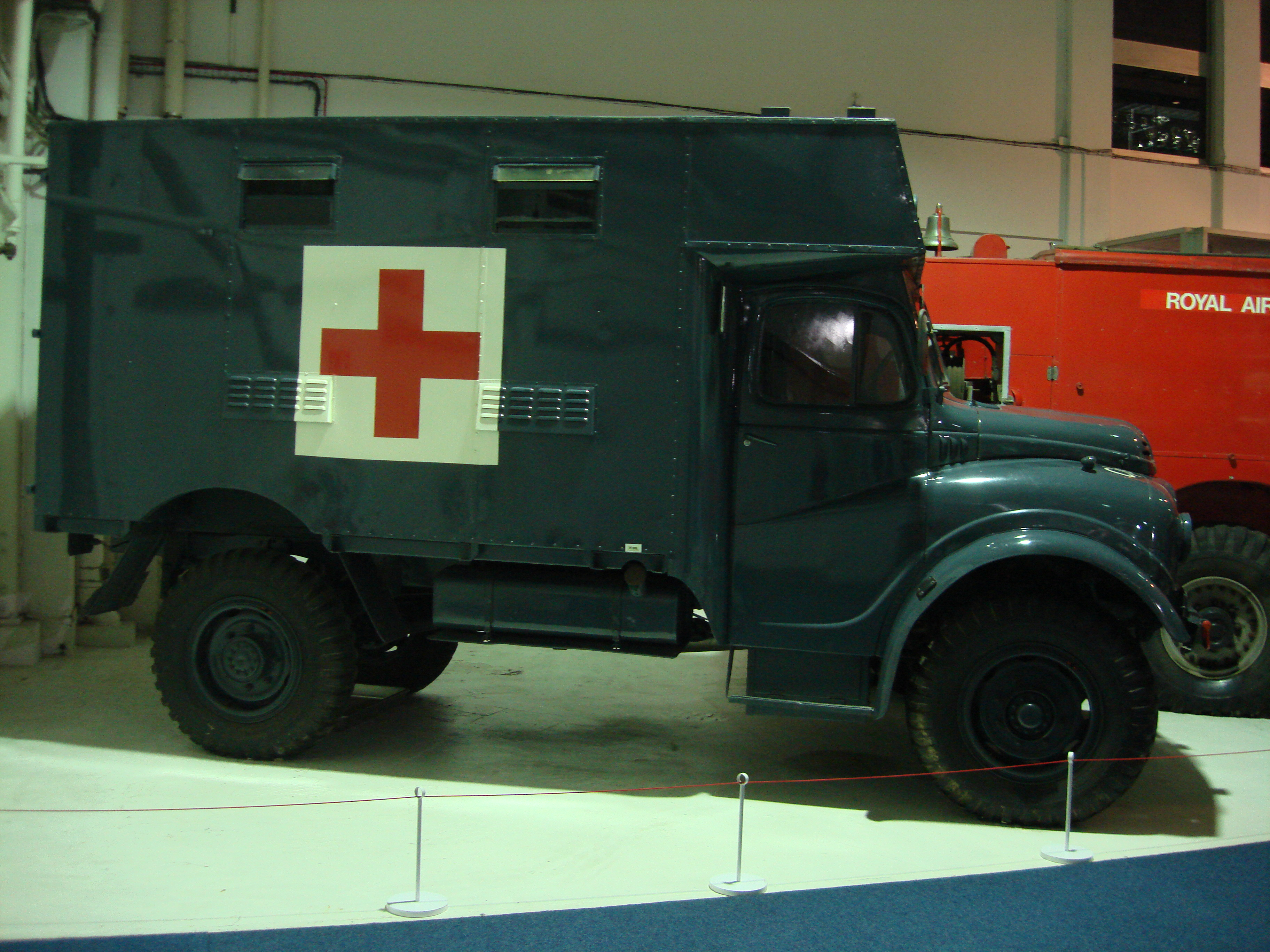 Austin K9WD 4x4 Ambulance at the RAF Museum London